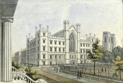 New York, University Bulding and Dutch Reformed Church in Washington Square, 1850